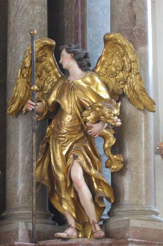 Angel done by Greiff